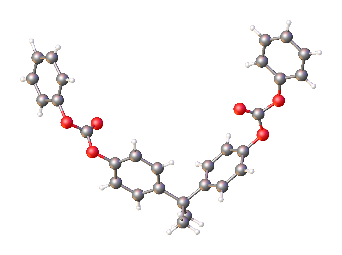 structure of unsym dicarbonate from bis(phenol-A) and phenol